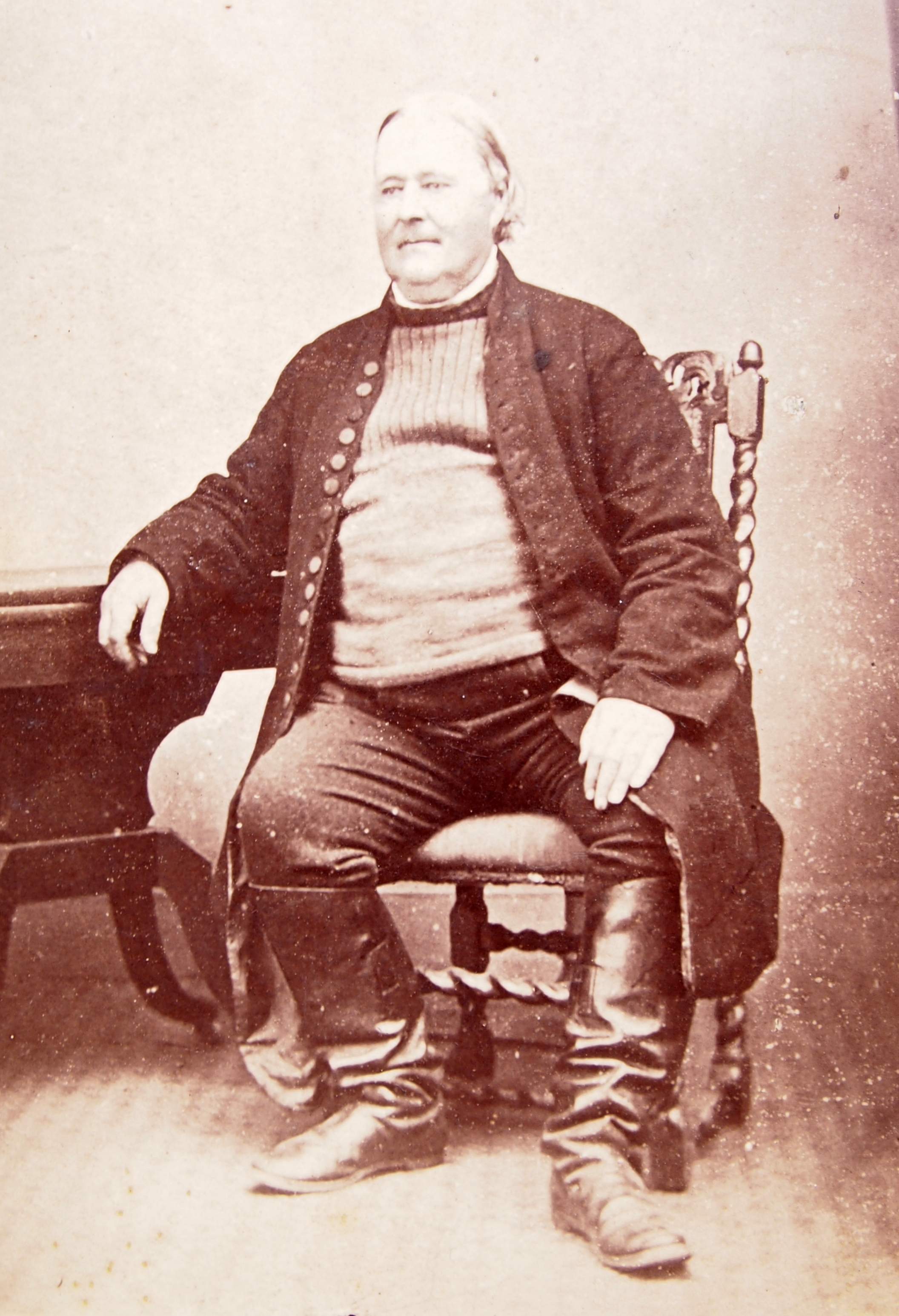 Robert Stephen Hawker AGED 66. Photo by S. Thorn of Bude Cornwall.